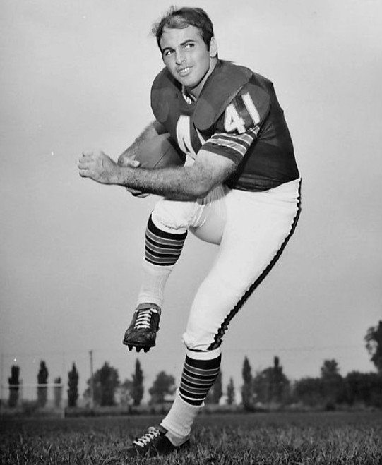 Photo of Chicago Bears player Brian Piccolo.